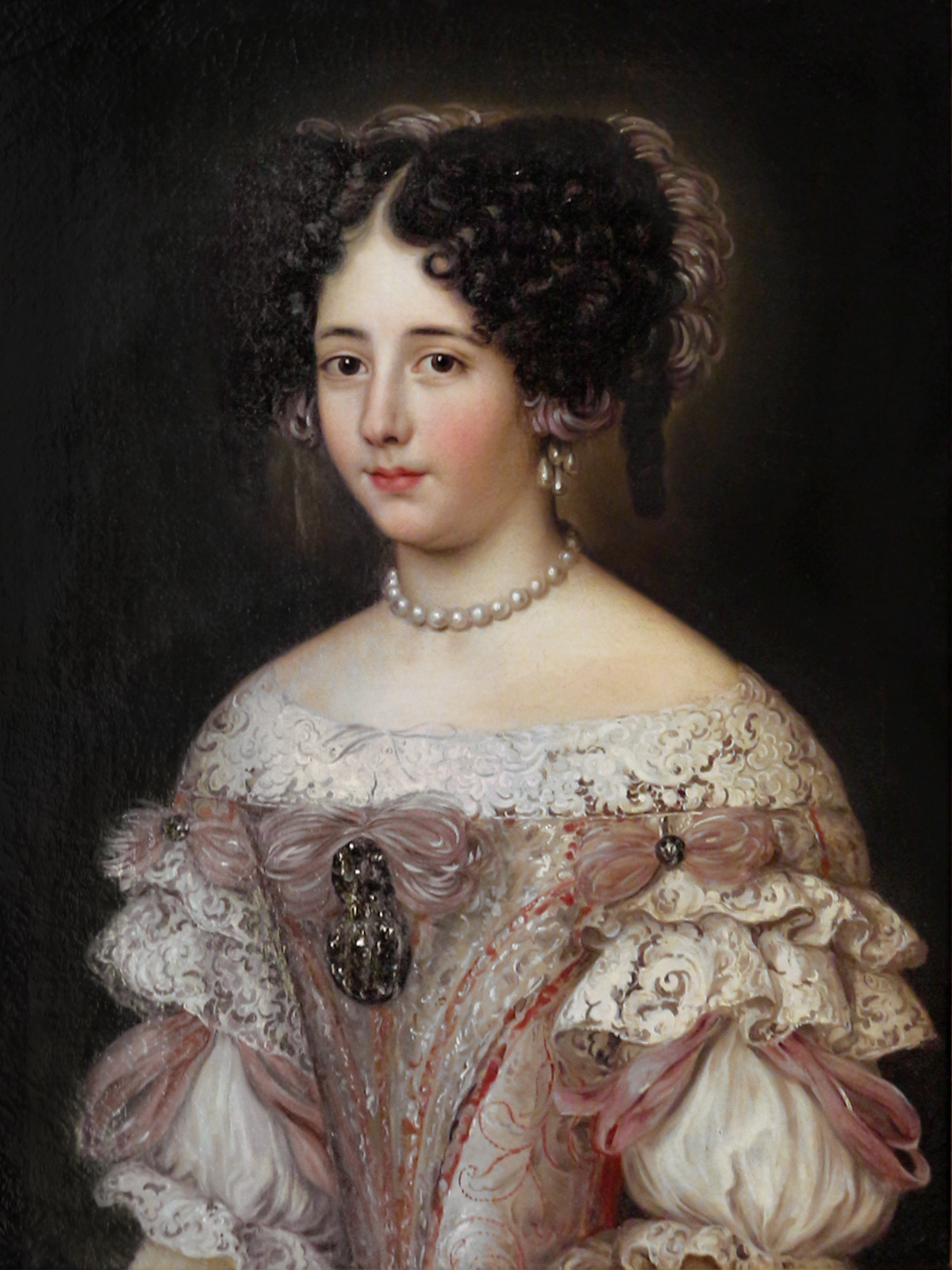 Voet has painted Ortensia Mancini and her sister Maria several times. A comparison of this portrait with other paintings of the 2 sisters Ortensia and Maria shows, that this must be a portrait of Maria Mancini, and not of Ortensia! Very similar to this image is a more private portrait by Voet of Maria Mancini "as Cleopatra" (in Berlin, Staatliche Museen) with one of those 'undecent' decolletés, because of which Voet was later exiled from Rome.